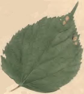 Stainton’s Natural History of the Tineina (1855–1873): Coleophora ledi mined Tilia leaf with attached larva-case